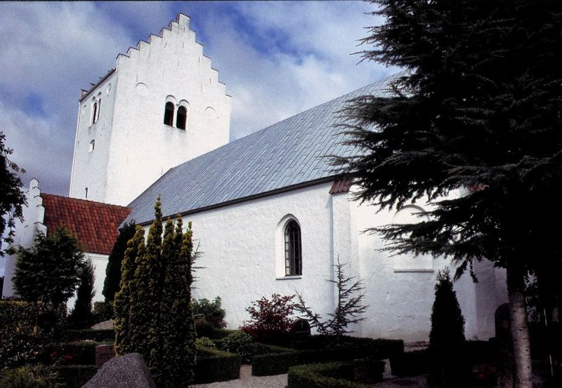 Hjortshøj Kirke (church) in Århus Kommune, from apr. 1200